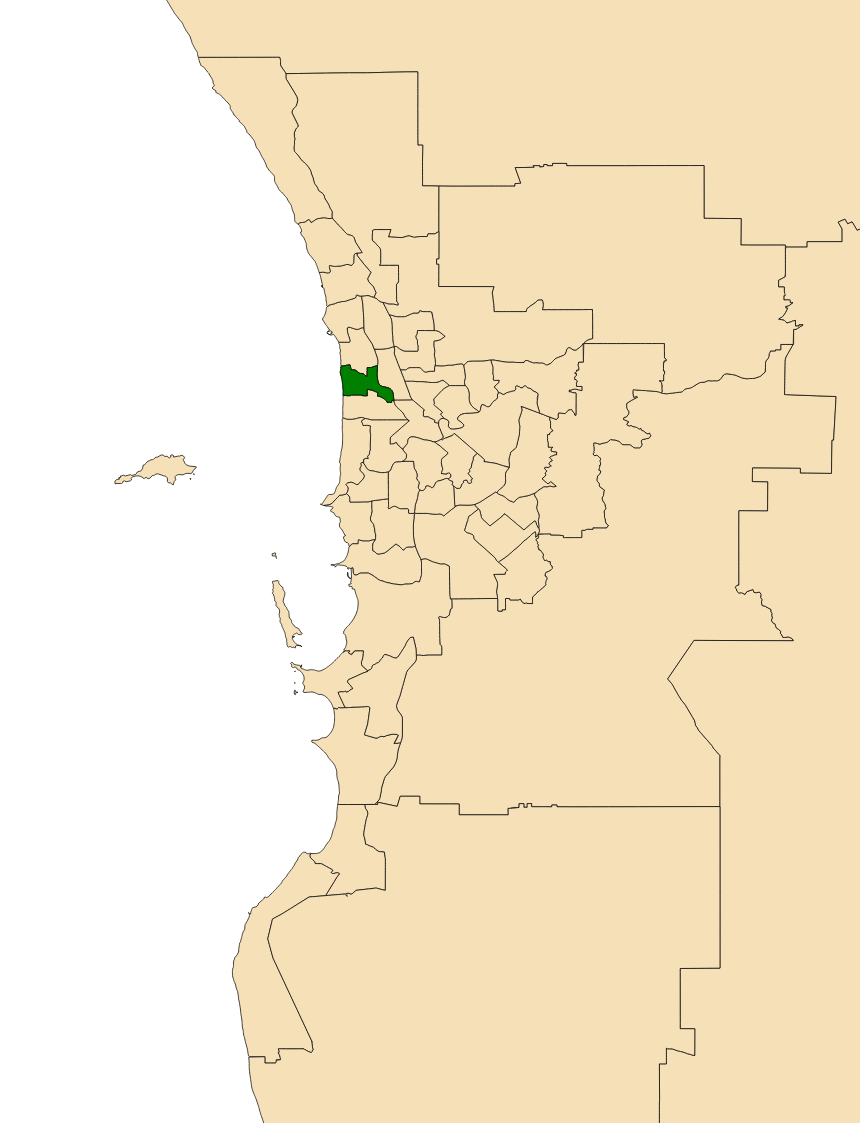 Location of the electoral district of Scarborough in the Perth metropolitan area, Western Australia as of the 2017 WA state election.